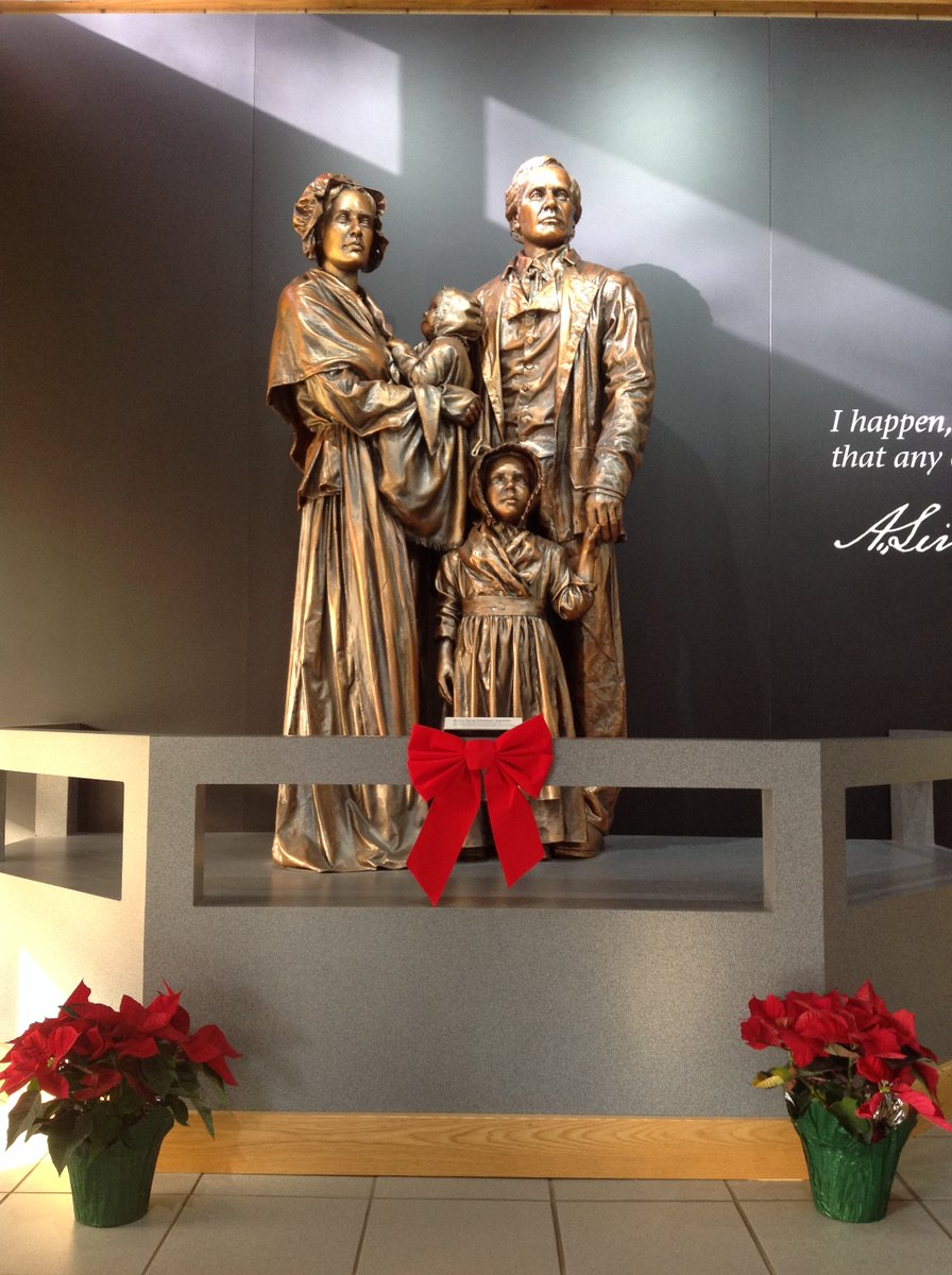 Come and get #festive at the park with the Lincolns! We have a film and museum in our visitor center, but this is also perfect #hiking weather for our #trails! #lincolnbirthplace #Kentucky #FindYourPark